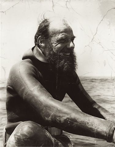 Wibberley family picture of subject; by permission of family. Picture shows author in sea setting, illustrating bio. description of him as active yachtsman.